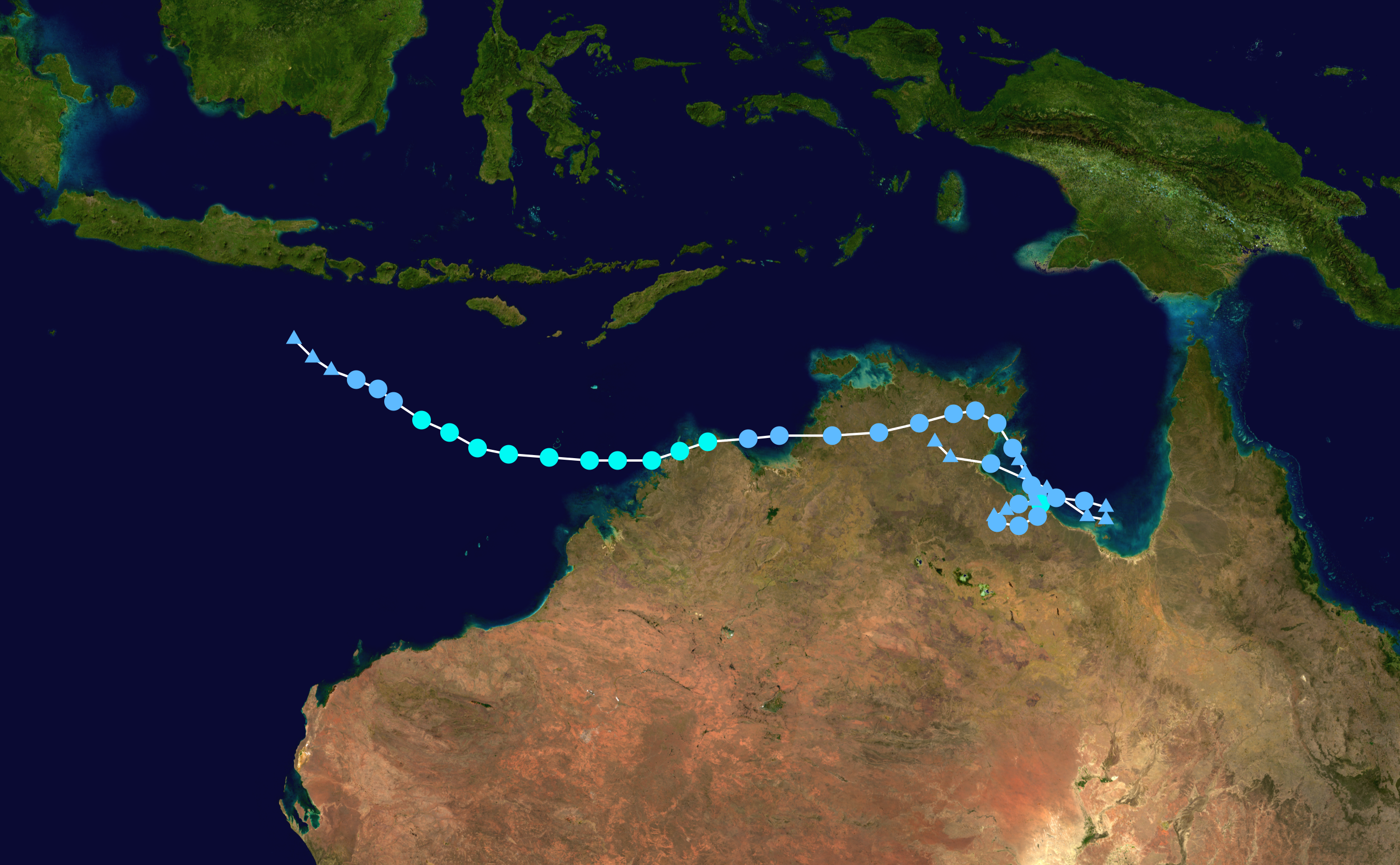 Track map of Tropical Cyclone Alessia of the 2013-14 Australian region cyclone season. The points show the location of the storm at 6-hour intervals. The colour represents the storm's maximum sustained wind speeds as classified in the Saffir–Simpson scale (see below), and the shape of the data points represent the nature of the storm, according to the legend below. Saffir–Simpson scale Tropical depression≤38 mph≤62 km/h Category 3111–129 mph178–208 km/h Tropical storm39–73 mph63–118 km/h Category 4130–156 mph209–251 km/h Category 174–95 mph119–153 km/h Category 5≥157 mph≥252 km/h Category 296–110 mph154–177 km/h Unknown Storm type Tropical cyclone Subtropical cyclone Extratropical cyclone / Remnant low / Tropical disturbance / Monsoon depression